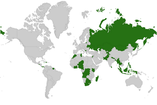 Map of countries where operators zero-rate access to Wikipedia, as of March 2, 2015.